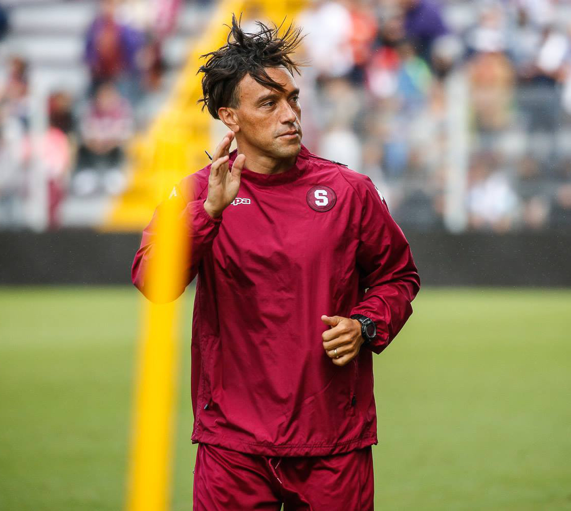 01-18-2018. Christian Bolaños training with Deportivo Saprissa.